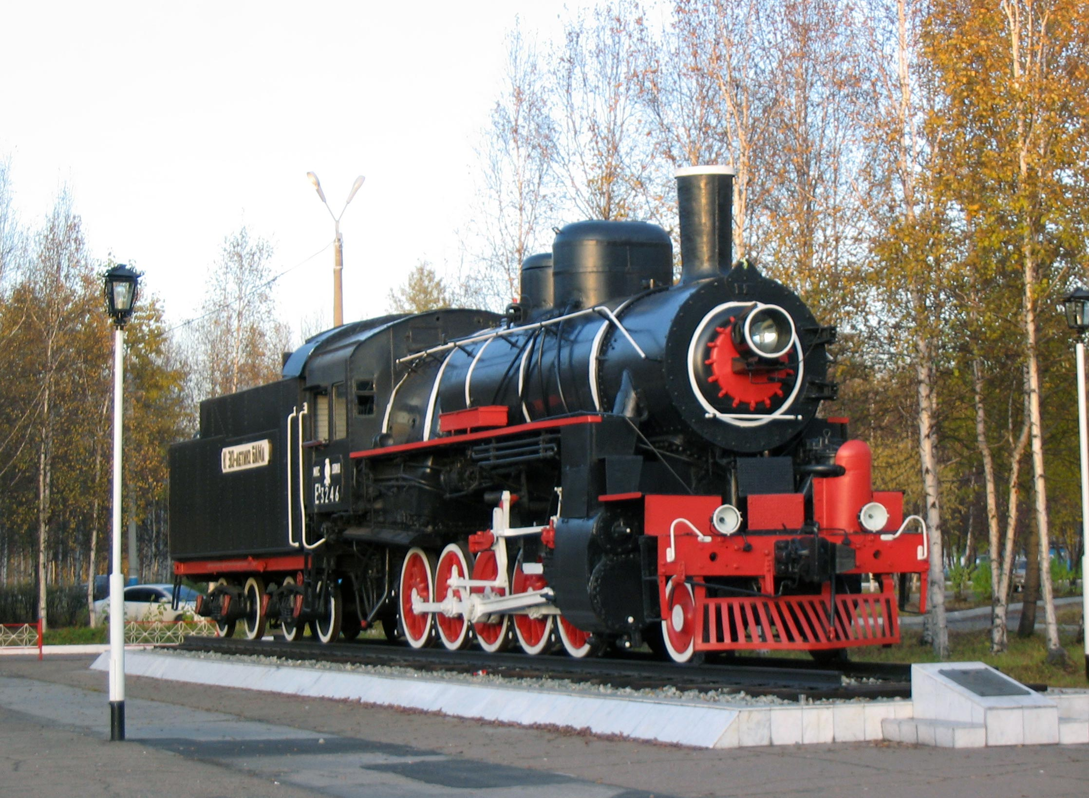 Steam locomotive Ea-3246 placed near Tynda station